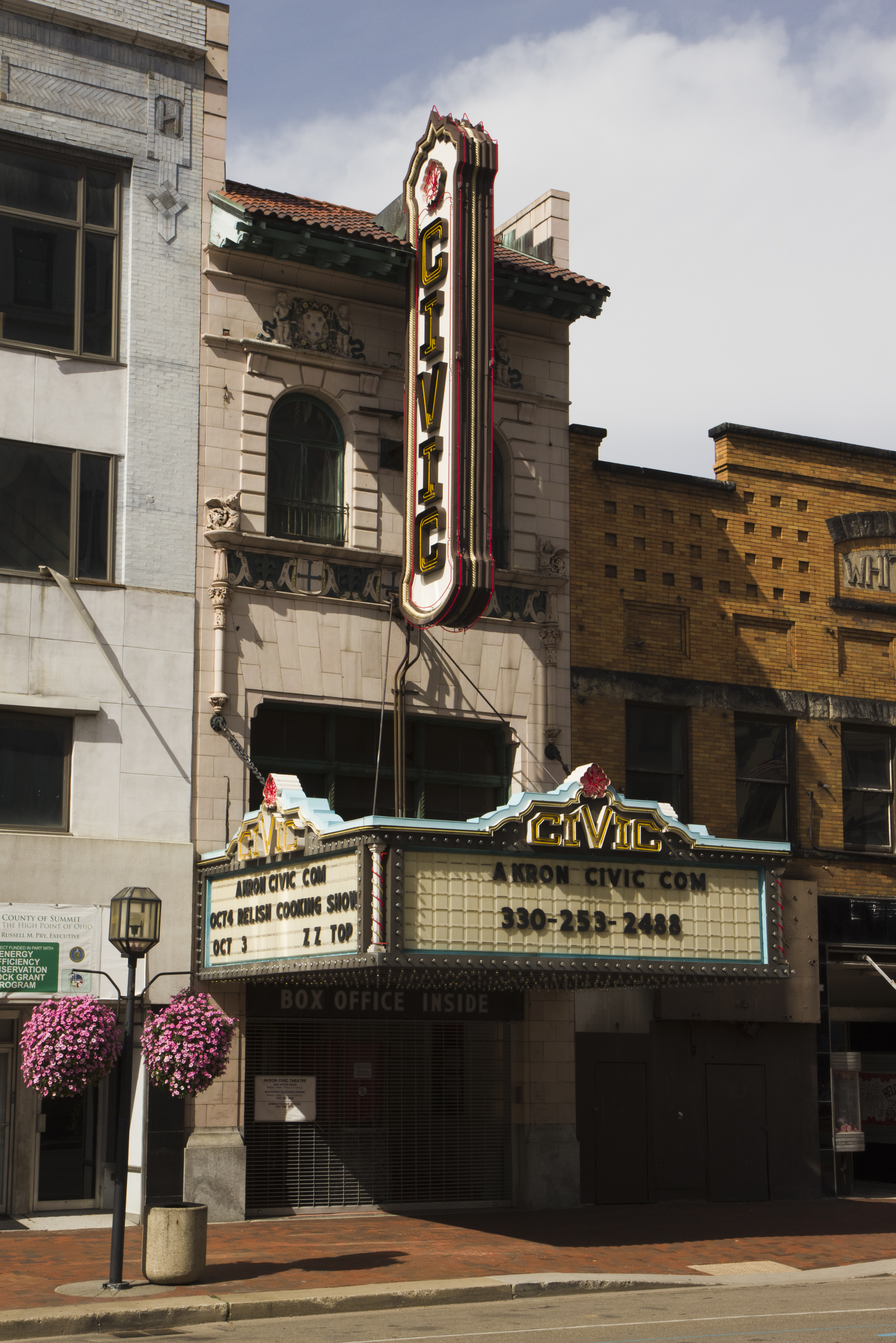 Loew's Theatre (Akron Civic Theatre),182 South Main Street, Akron, Summit County, Ohio - view west showing east face